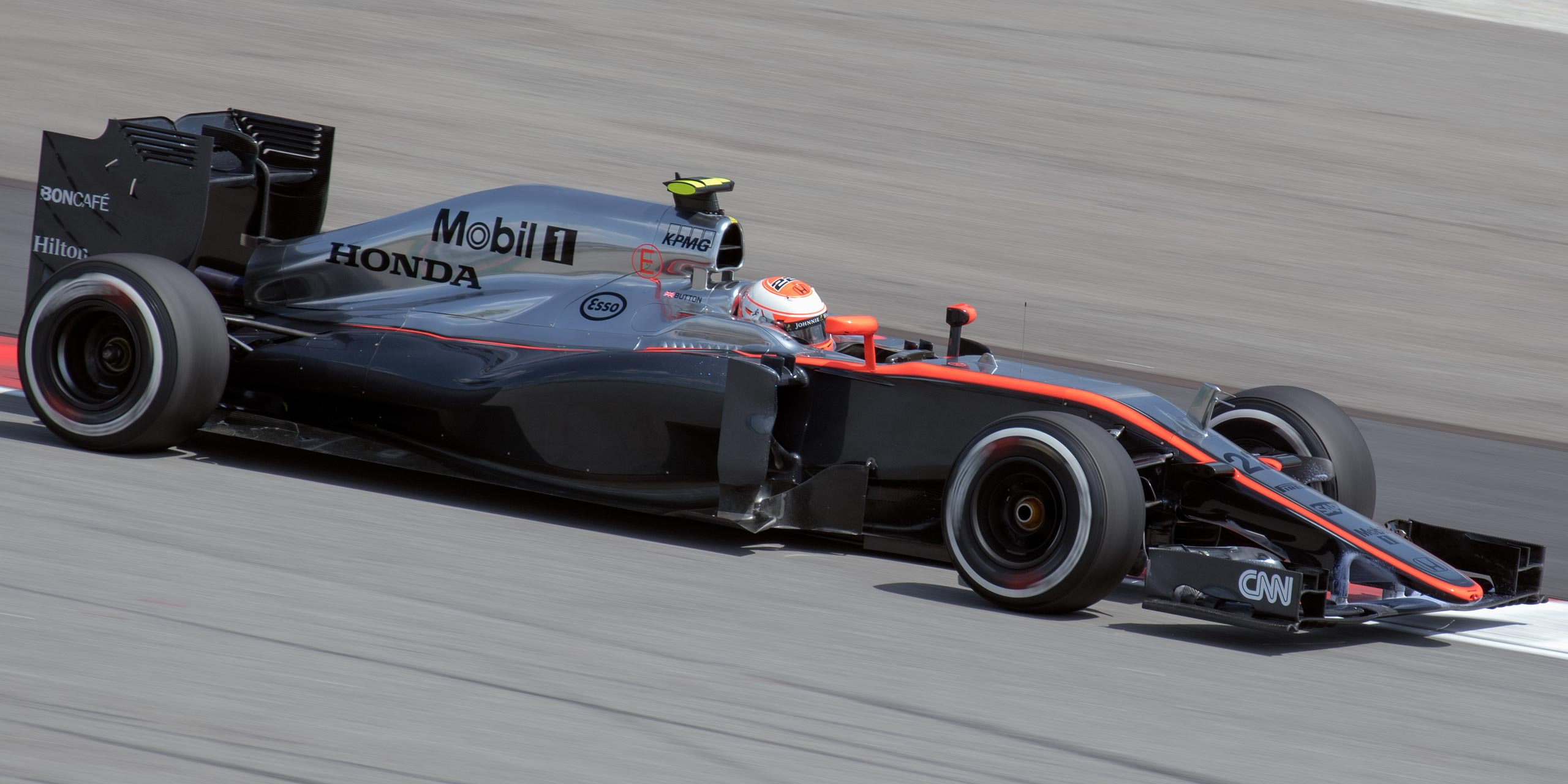 Formula One 2015 Rd.2 Malaysian GP: Jenson Button (McLaren)